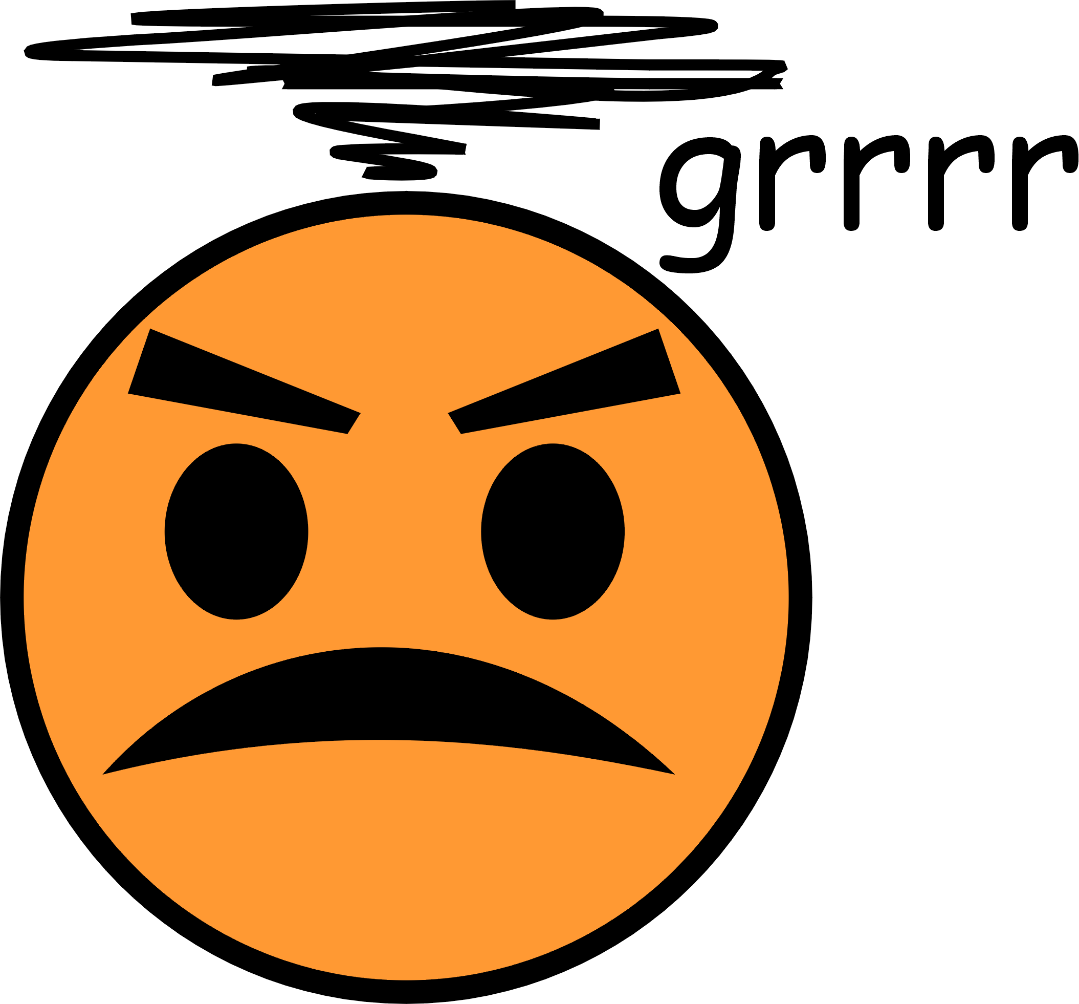 Hate, anger symbol